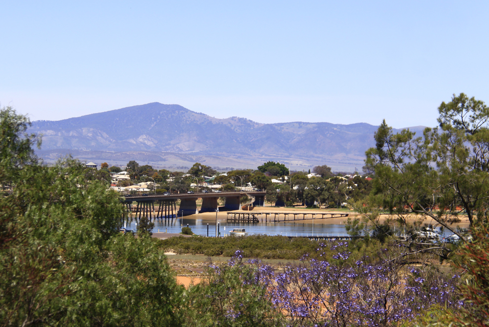 The city of Port Augusta is situated at the top of Spencer Gulf in Port Augusta within close proximity to the magnificent Flinders Ranges